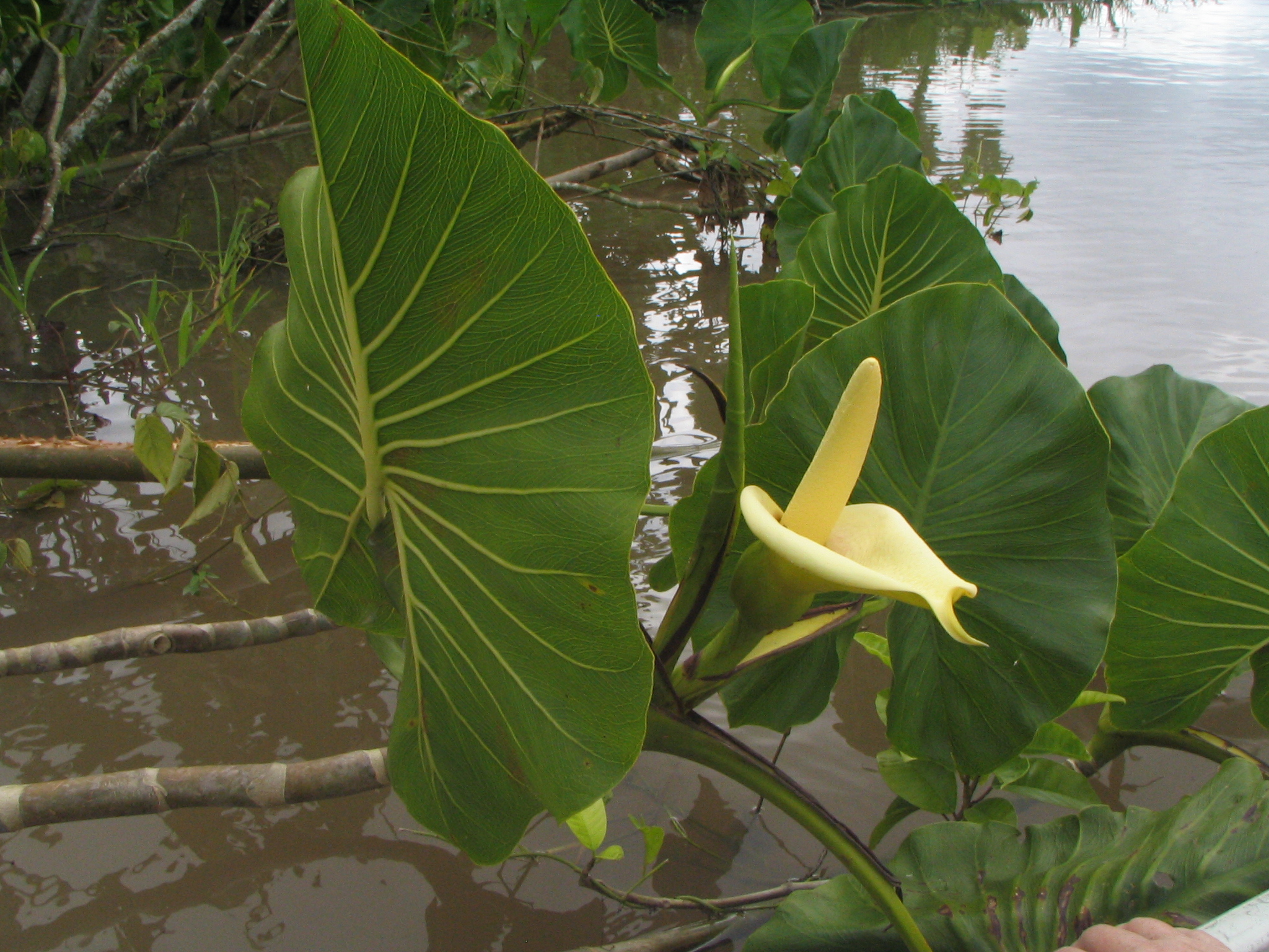 Flower of Montrichardia linifera at a stand between Lago do Guedes and Lago do Iquito (Mamiraua Reserve, Amazon) latitude: -2.469286, longitude: -65.604647)